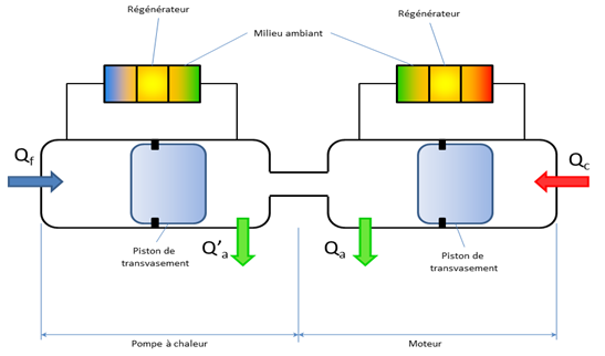 working principe of Vuilleumier machine